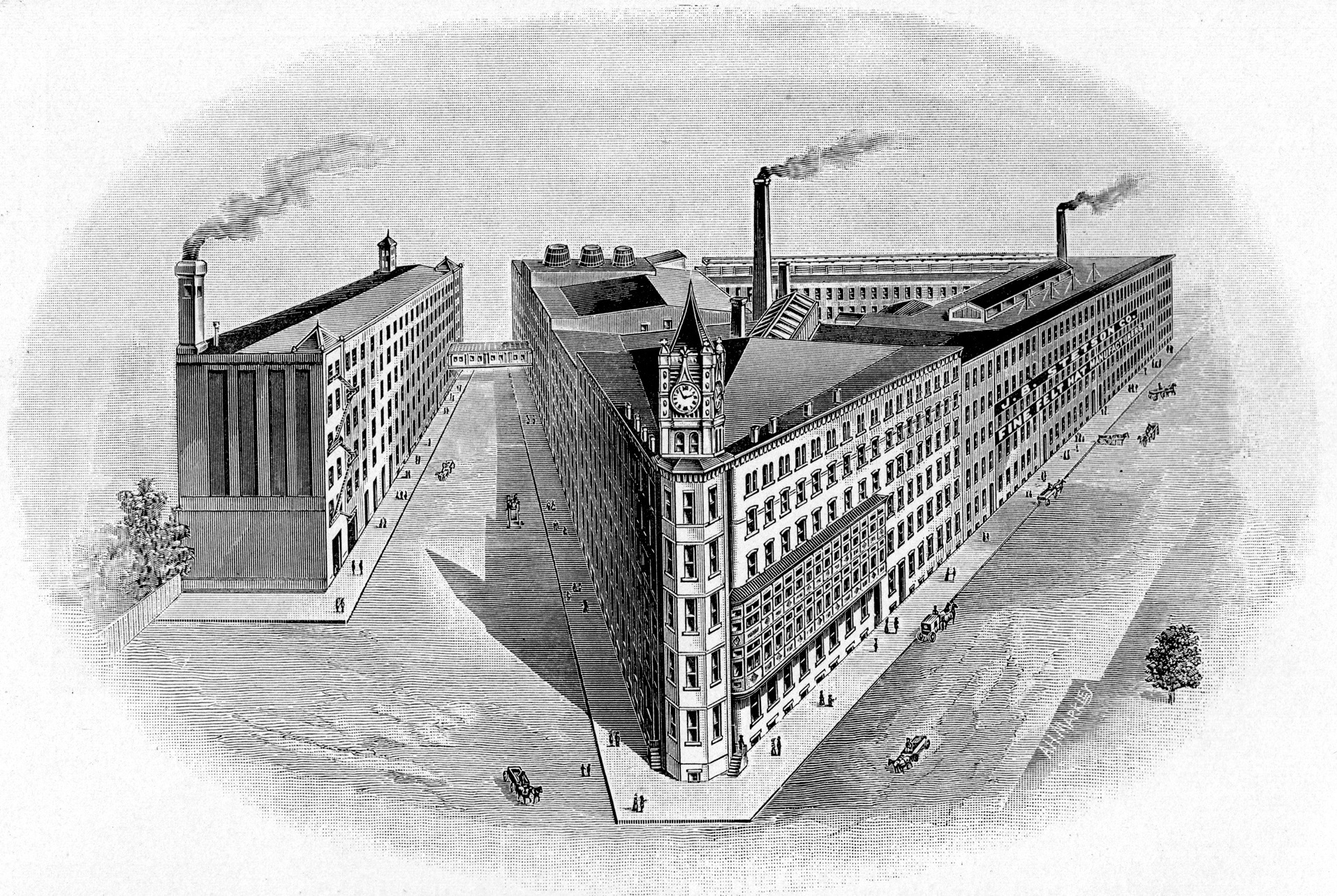 The John B. Stetson Co. factory, Philadelphia, PA 1894 (engraving)